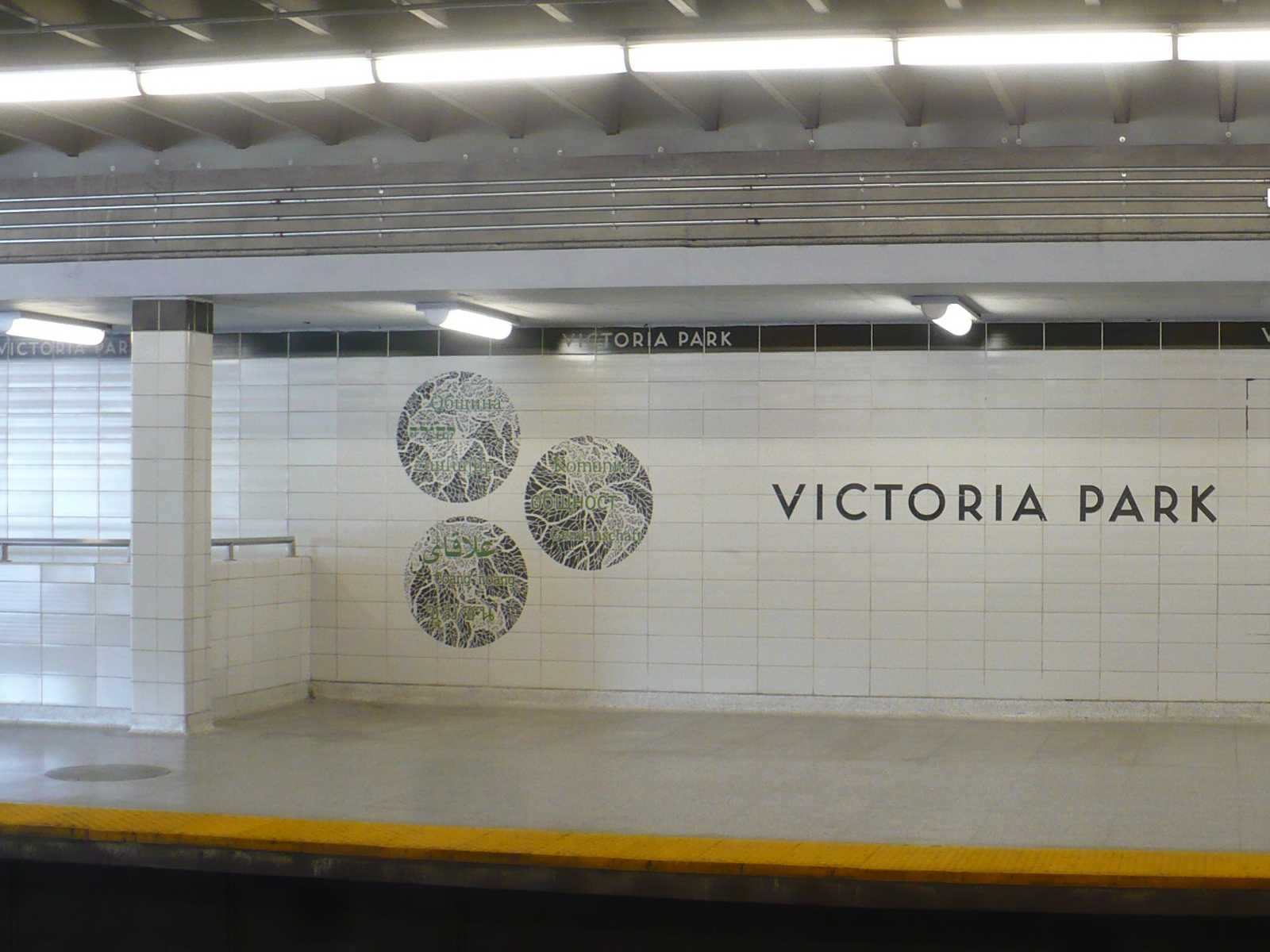 Victoria Park subway station in Toronto